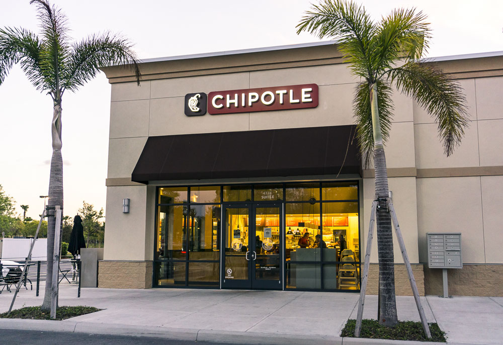 Mexican cuisine restaurant